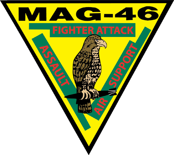 Unit insignia for Marine Aircraft Group 46